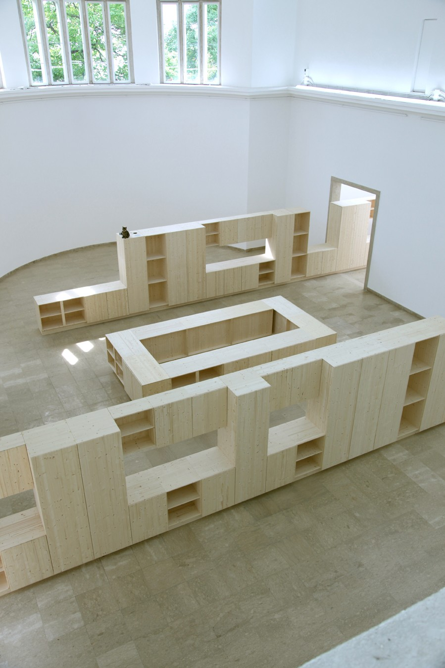 Germany`s contribution to the Venice Biennale 2009; How are you going to behave? A kitchen cat speaks.